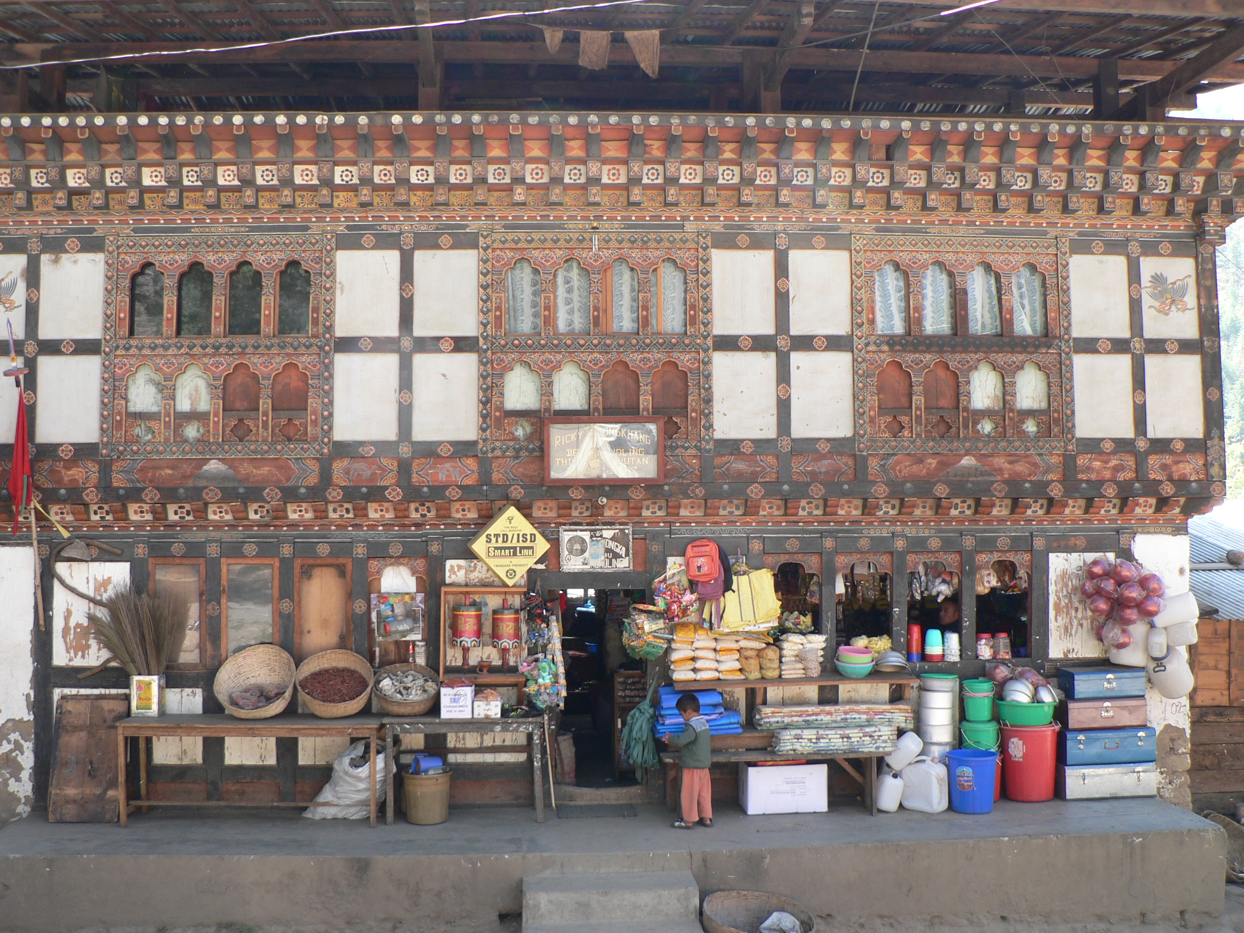 Roadside shops north of Thimphu city.